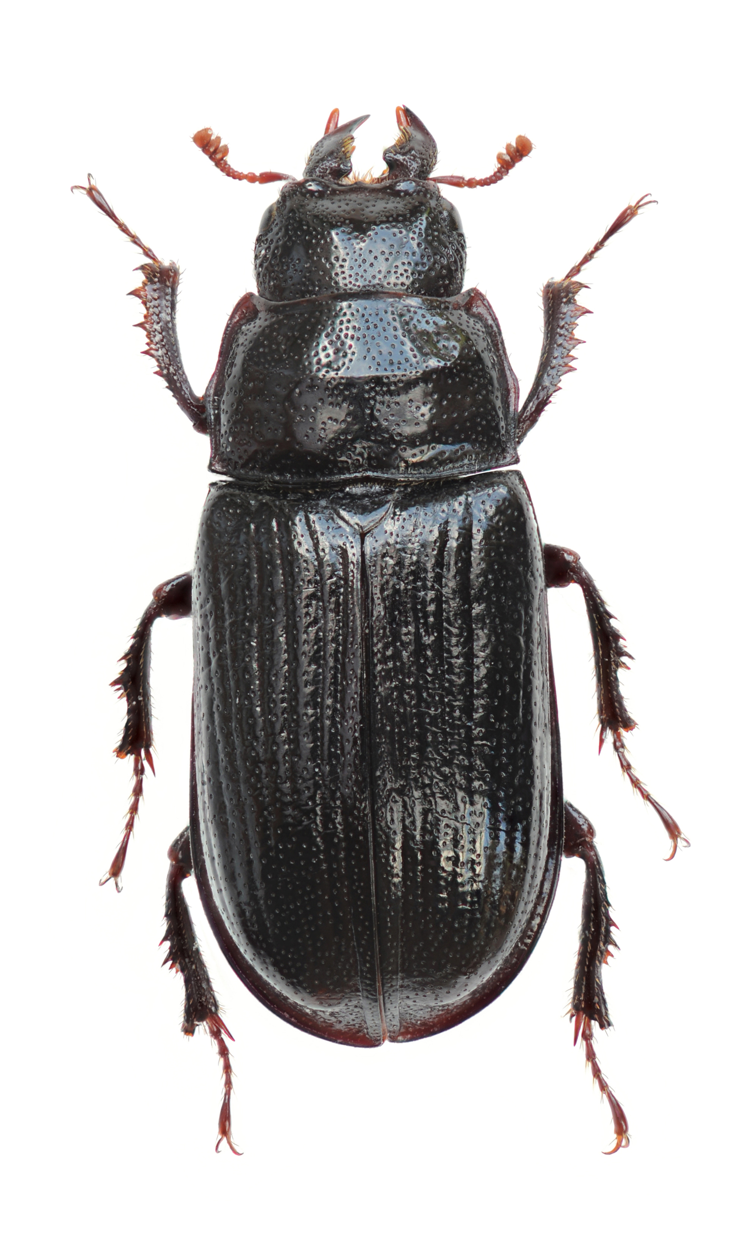 Ceruchus chrysomelinus female